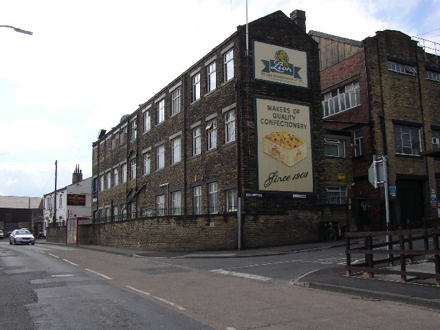 Lion Sweet Factory, Westgate, Cleckheaton, West Yorkshire, England. An old-fashioned looking factory, but still in action. At grid reference SE183253 looking west.